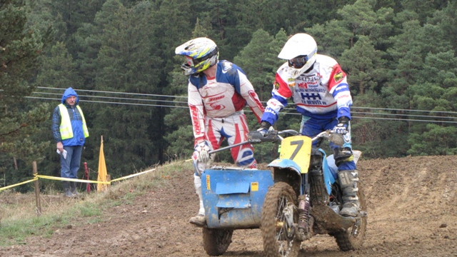 Alois Wenninger & Mario Wolfarth (No 7) at the final round of the German sidecarcross championship in Warching, 18 October 2009, riding a AYR-MTH